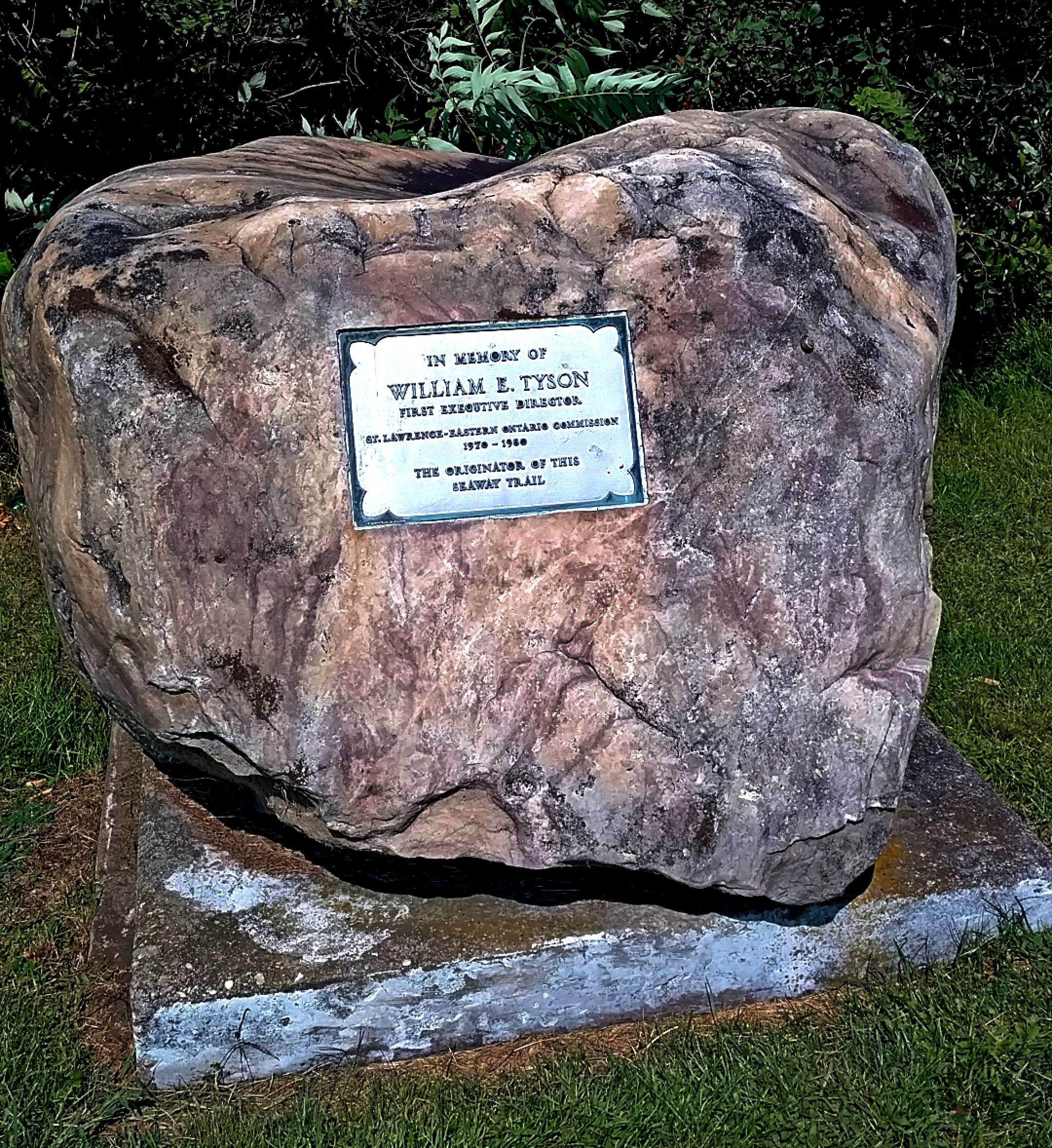 Monument to William E. Tyson, founder of the Seaway Trail. Located at Henderson, New York overlooking Lake Ontario.